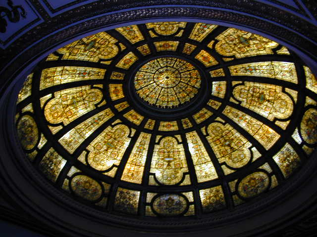 Stained glass dome at Chicago Cultural Center, Grand Army of the Republic (GAR) Rotunda. According to the Chicago Cultural Center, this work was created by the studio of Healy & Millet.